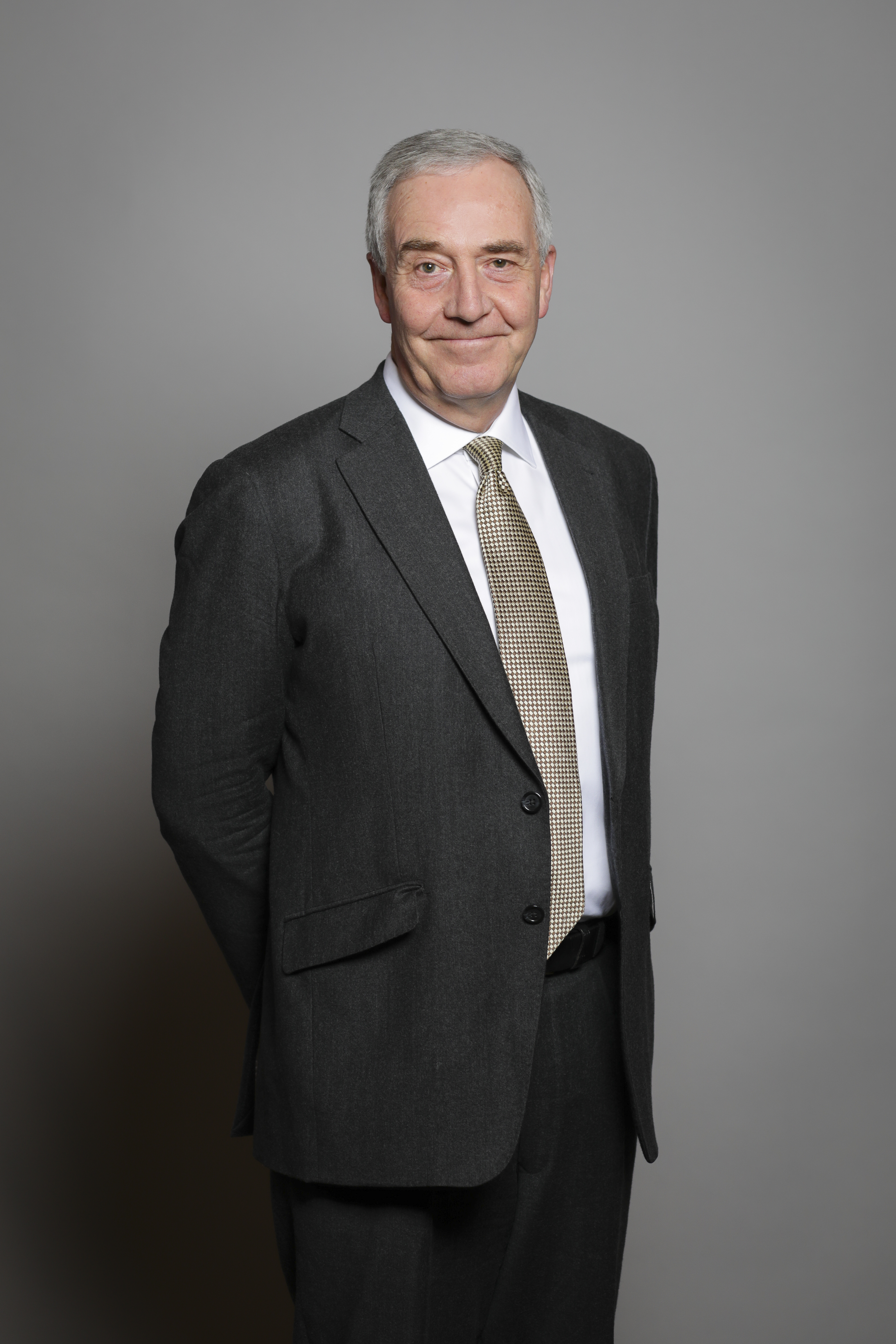 Official portrait of Lord Anderson of Ipswich Full sized portrait of Lord Anderson of Ipswich